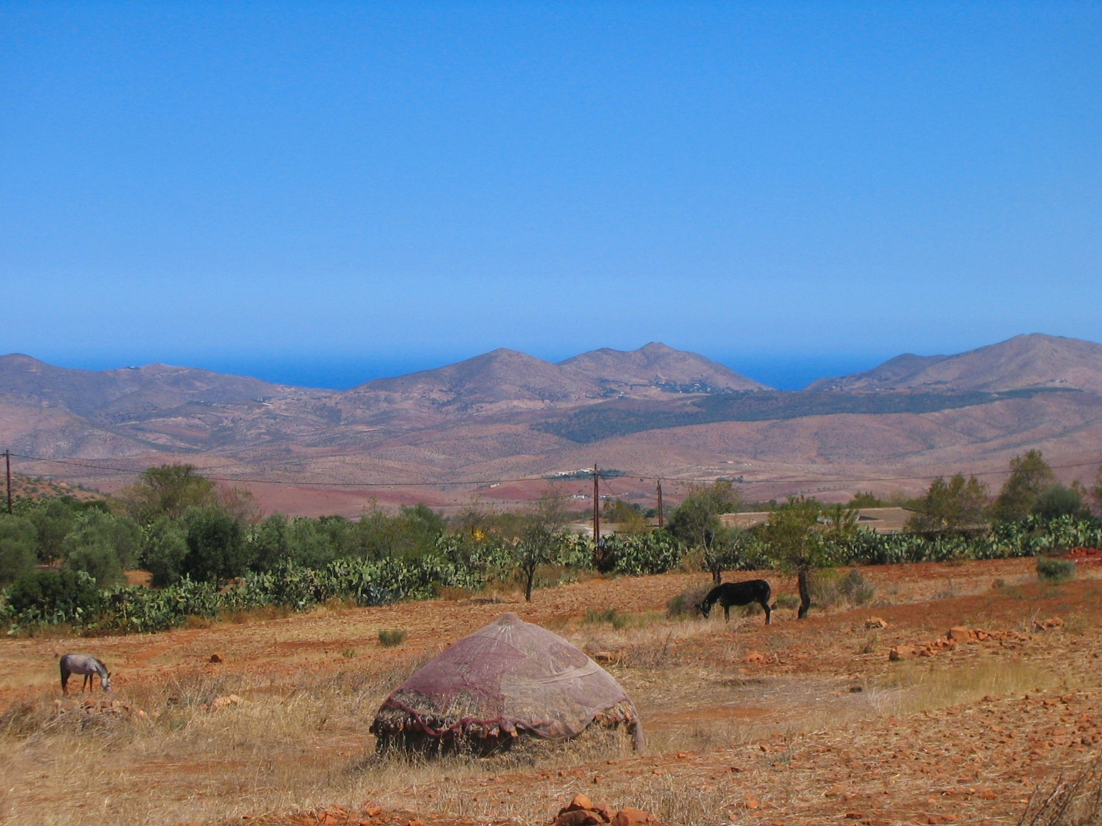 Photo of Rif mountains looking toward the Mediterranean Sea near Al Hoceima. Taken August 2004.